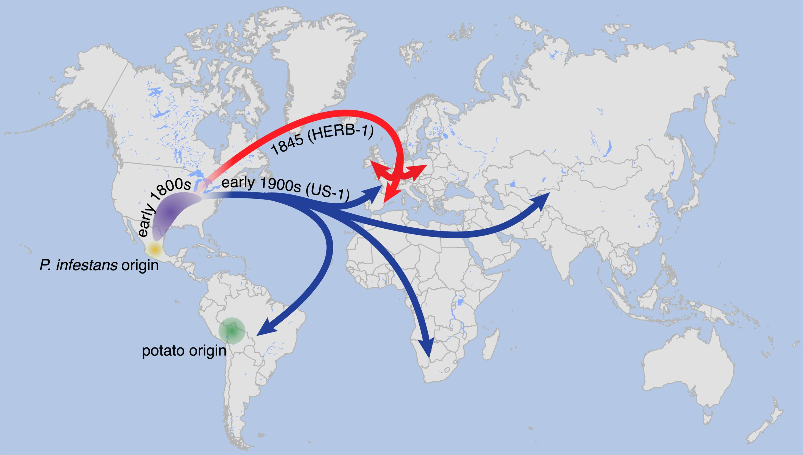 Suggested paths of migration and diversification of P. infestans lineages HERB-1 and US-1. The location of the metapopulation that gave rise to HERB-1 and US-1 remains uncertain; here it is proposed to have been in North America.